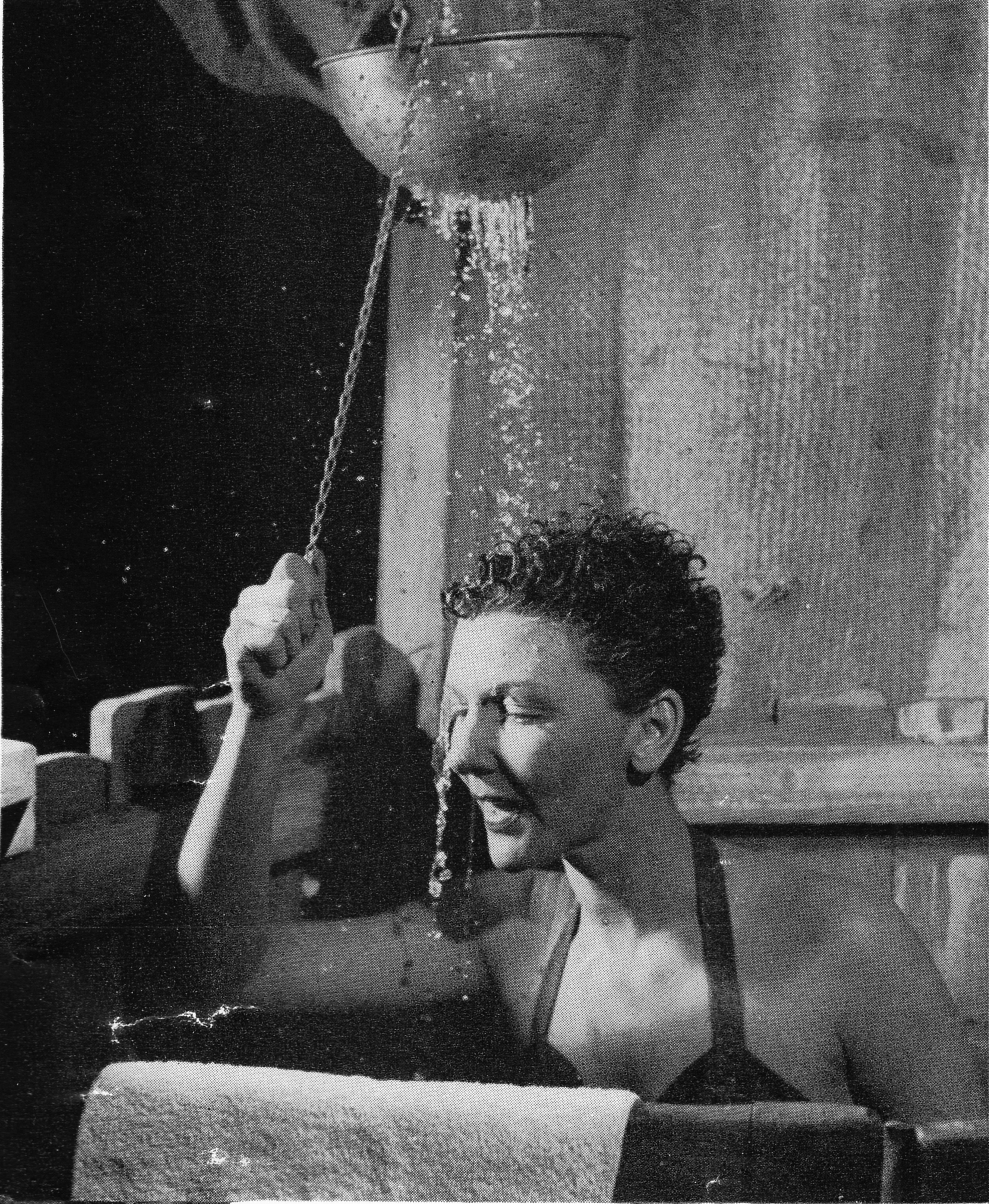 Mary Martin as Nellie Forbush in Act 1 of South Pacific washes that man right out of her hair